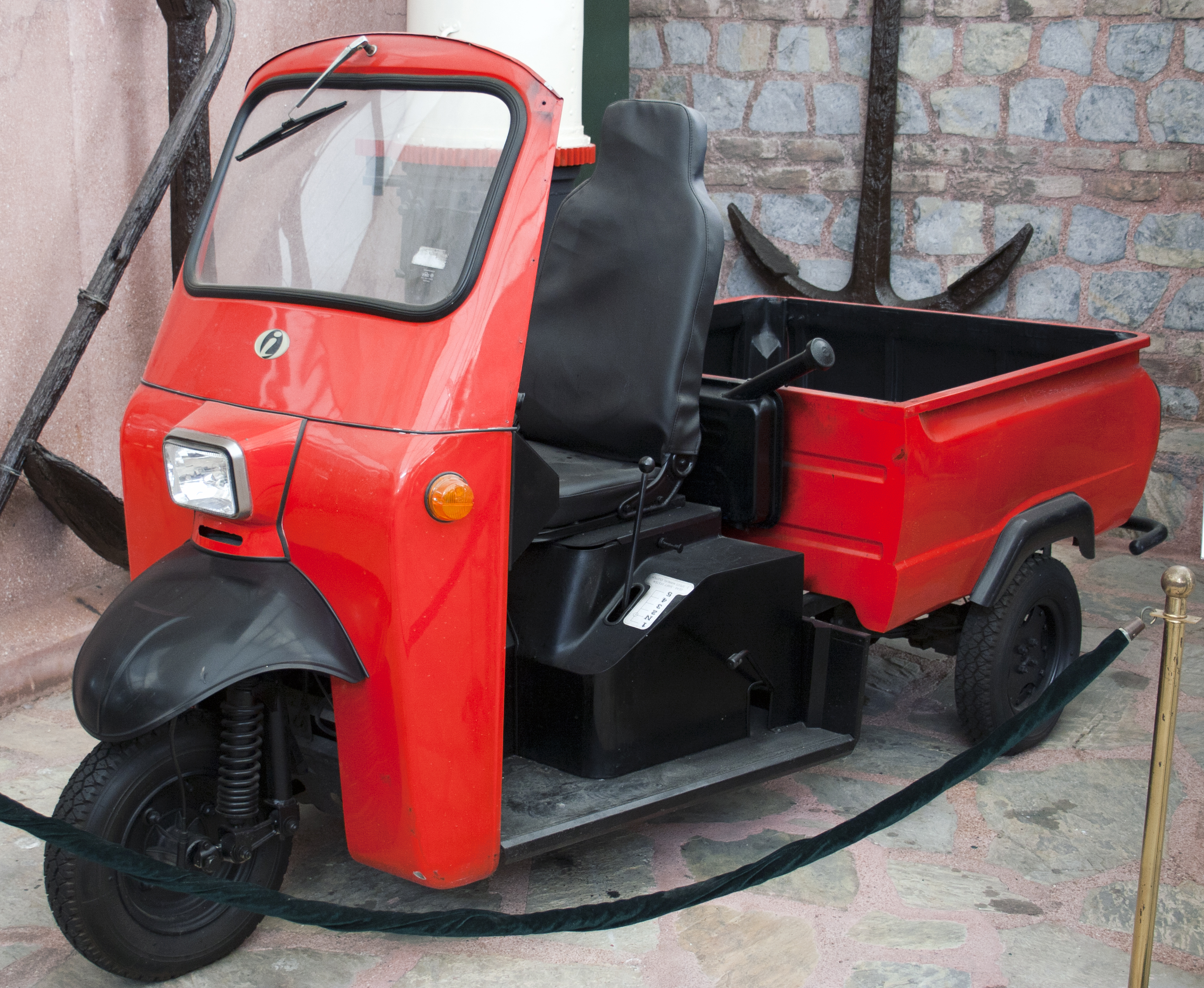 A Monika L1 ST pickup truck version of a tuk-tuk on display at the Rahmi M. Koç Museum of Transportation. Built in Thailand.